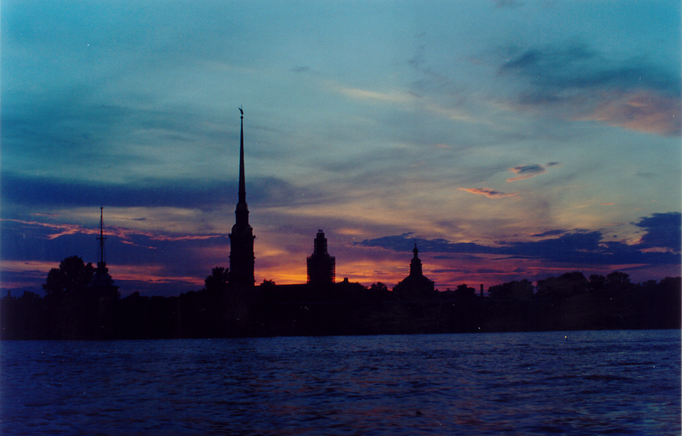 Saint Petersburg,Russia-Peter and Paul fortress at midnight during White Nights 5